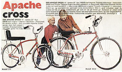 Apache bike ad from the 70's